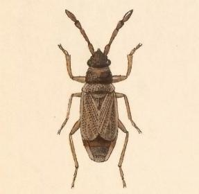 Biologia Centrali-Americana - Sisamnes contractus Cut-out from original (Biologia Centrali-Americana (8272543840).jpg) shown below